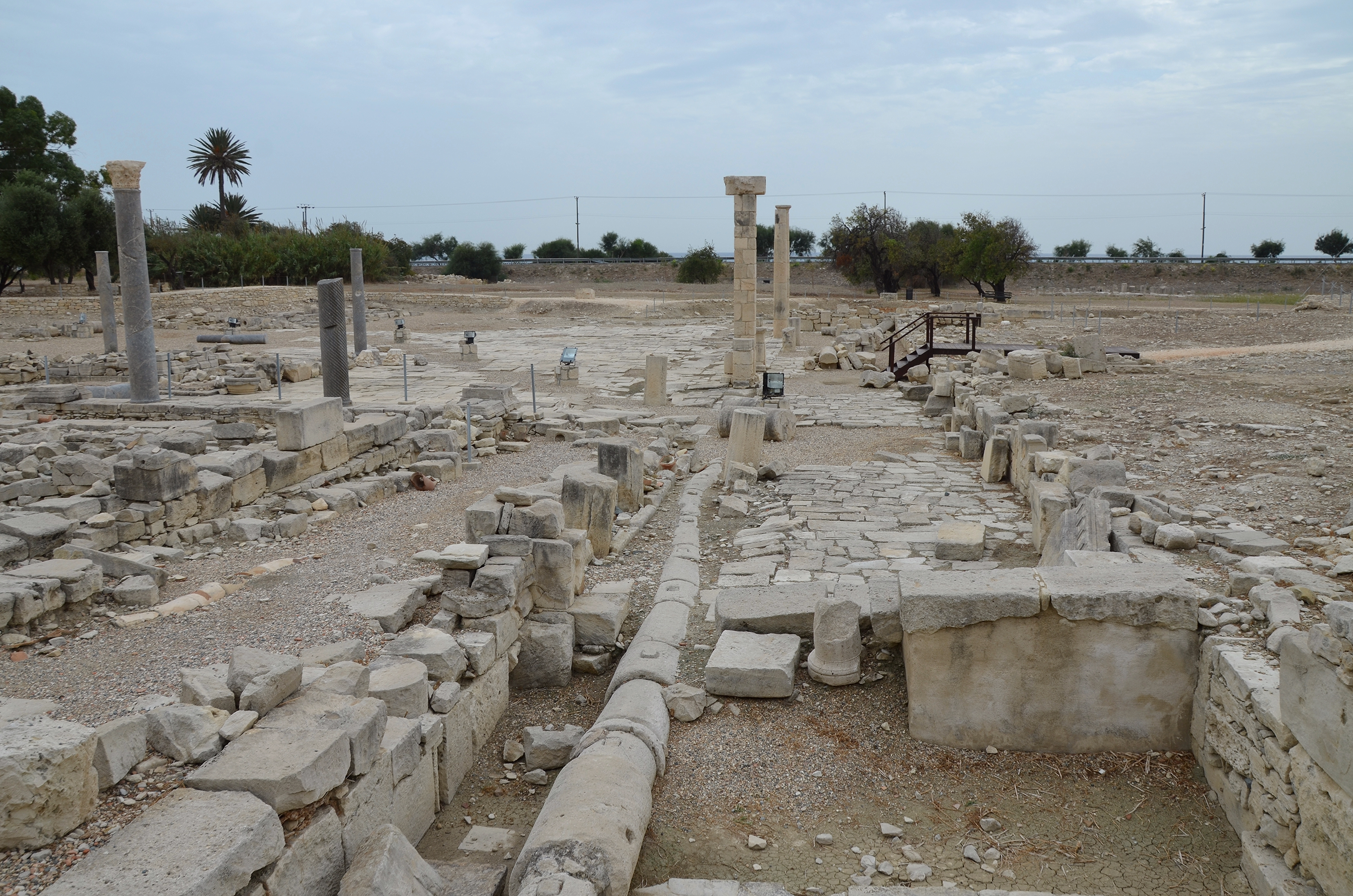 The Agora dating back to the Hellenistic period, it consisted of a large rectangular stone-paved area with porticoes on four sides, Amathus, Cyprus.